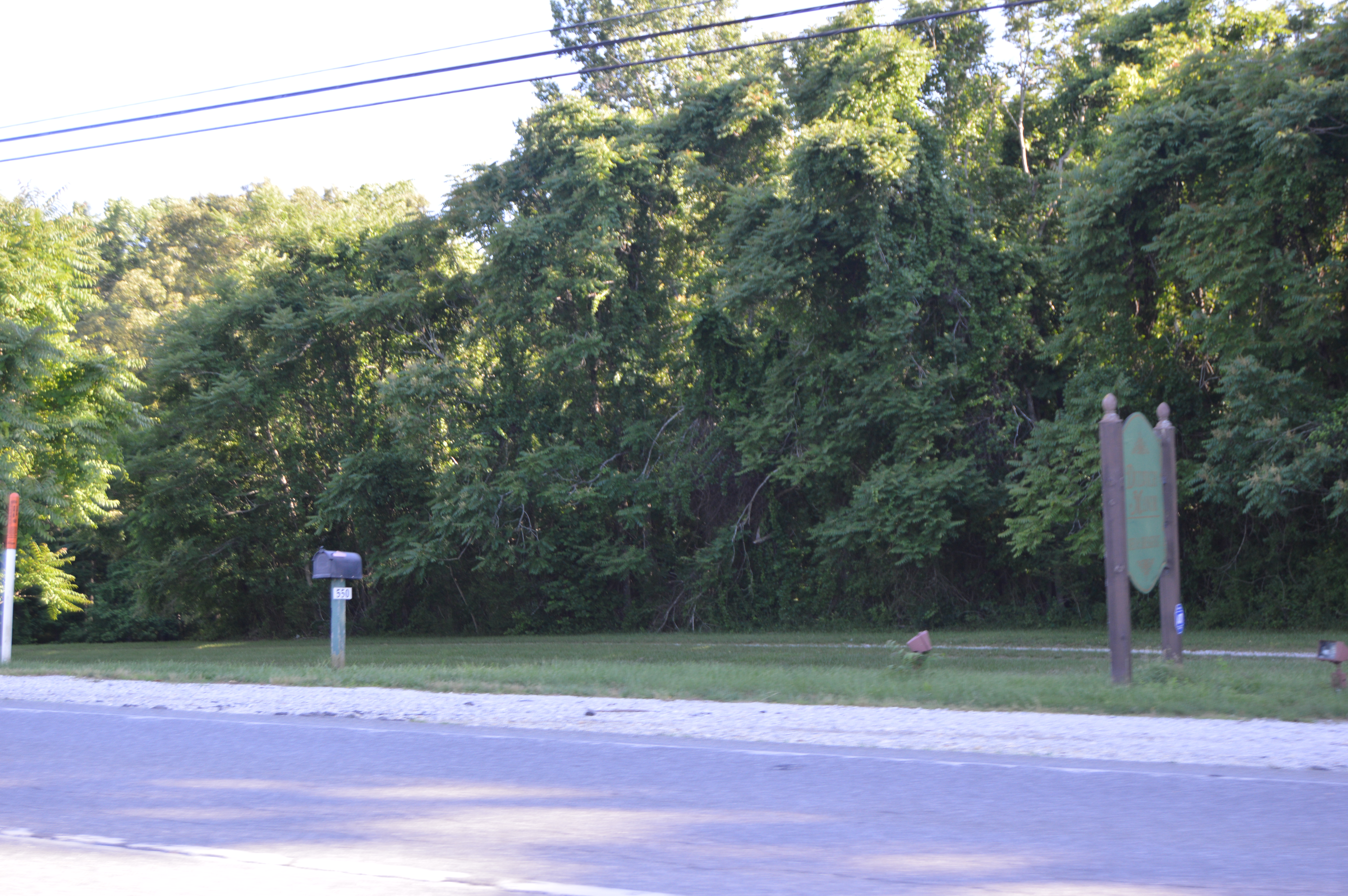 Entrance to Dulwich Manor, located at 550 U.S. Route 60 in Amherst, Virginia, United States. The estate is listed on the National Register of Historic Places.